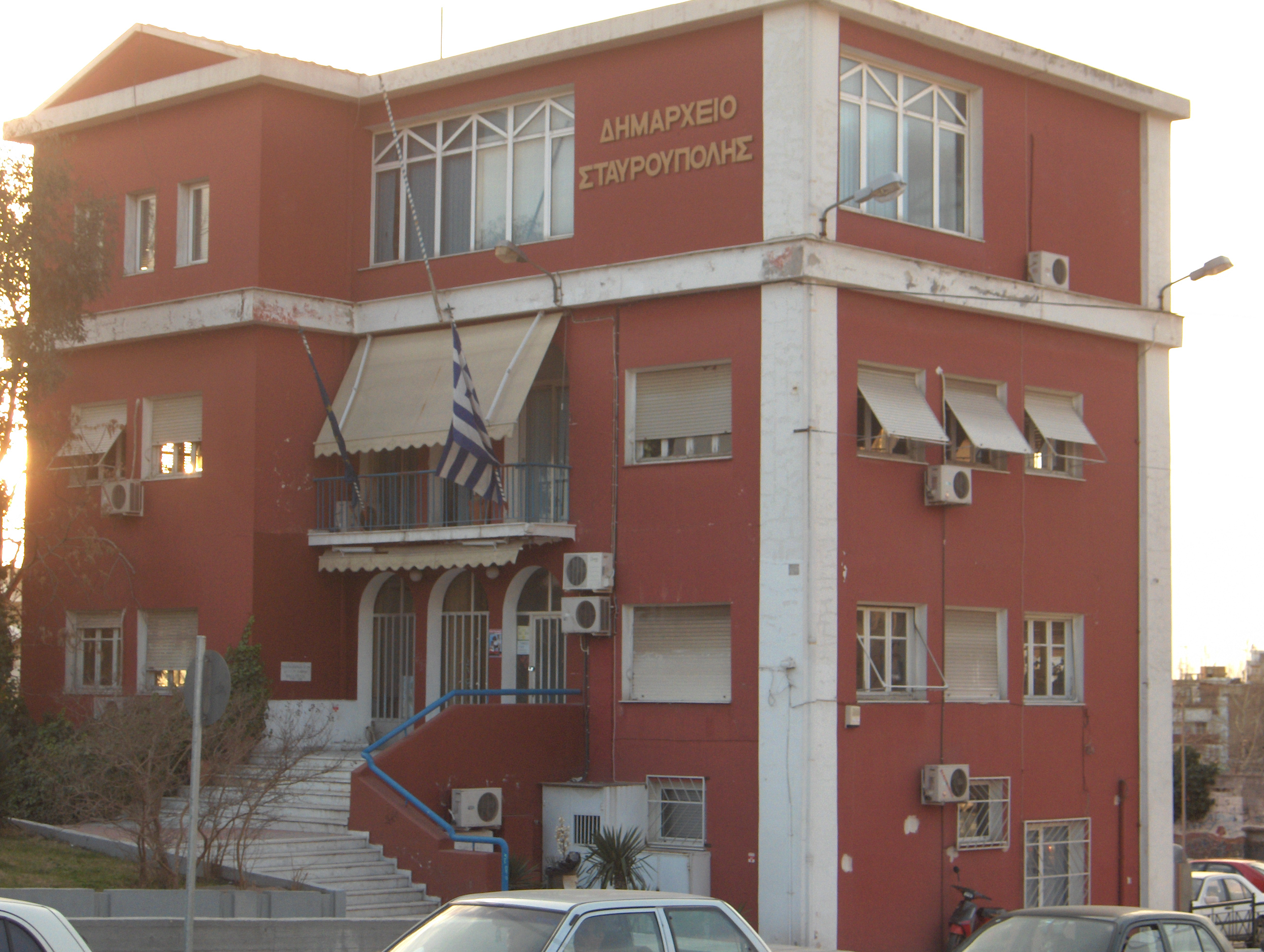 City hall, municipal Stavroupolis Salonica Greece